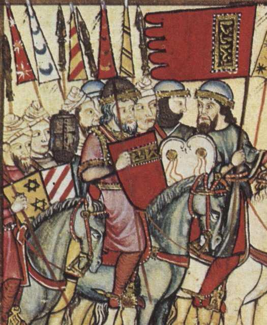 According to O'Callaghan, 1998, pp. 111-113, the picture described events in May 1264, during the Mudéjar revolt of 1264–66. Muhammad I of Granada is depicted in red tunic, with a red flag and red shield, leading his troops. Joseph F. O'Callaghan (1998) Alfonso X and the Cantigas De Santa Maria: A Poetic Biography, BRILL ISBN: 9004110232.